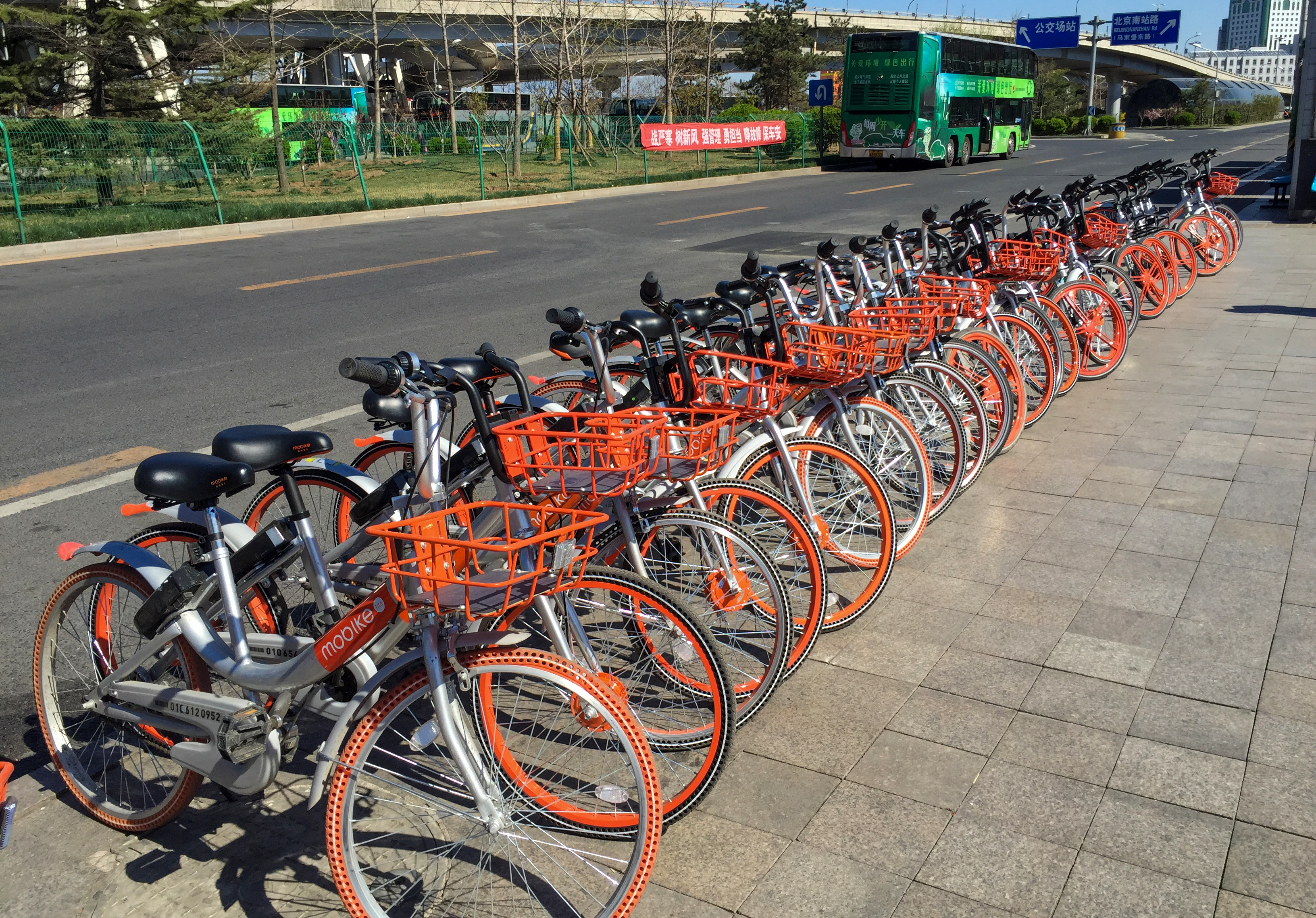 Adequate connection in several batches.